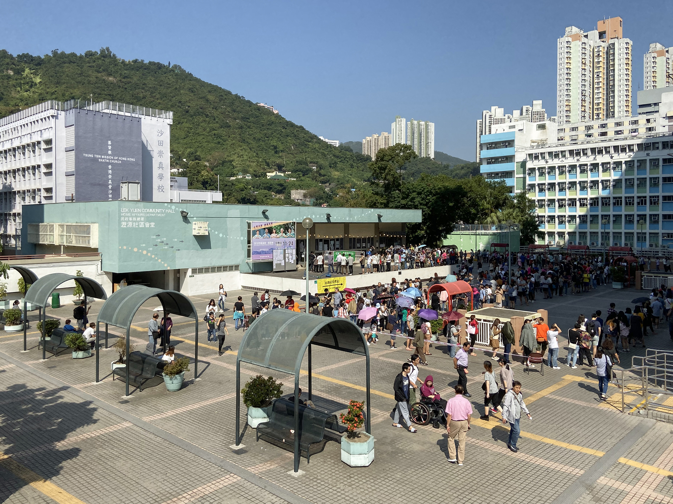 GCCITKD Cheong Wong Wai Primary School Polling Station queue